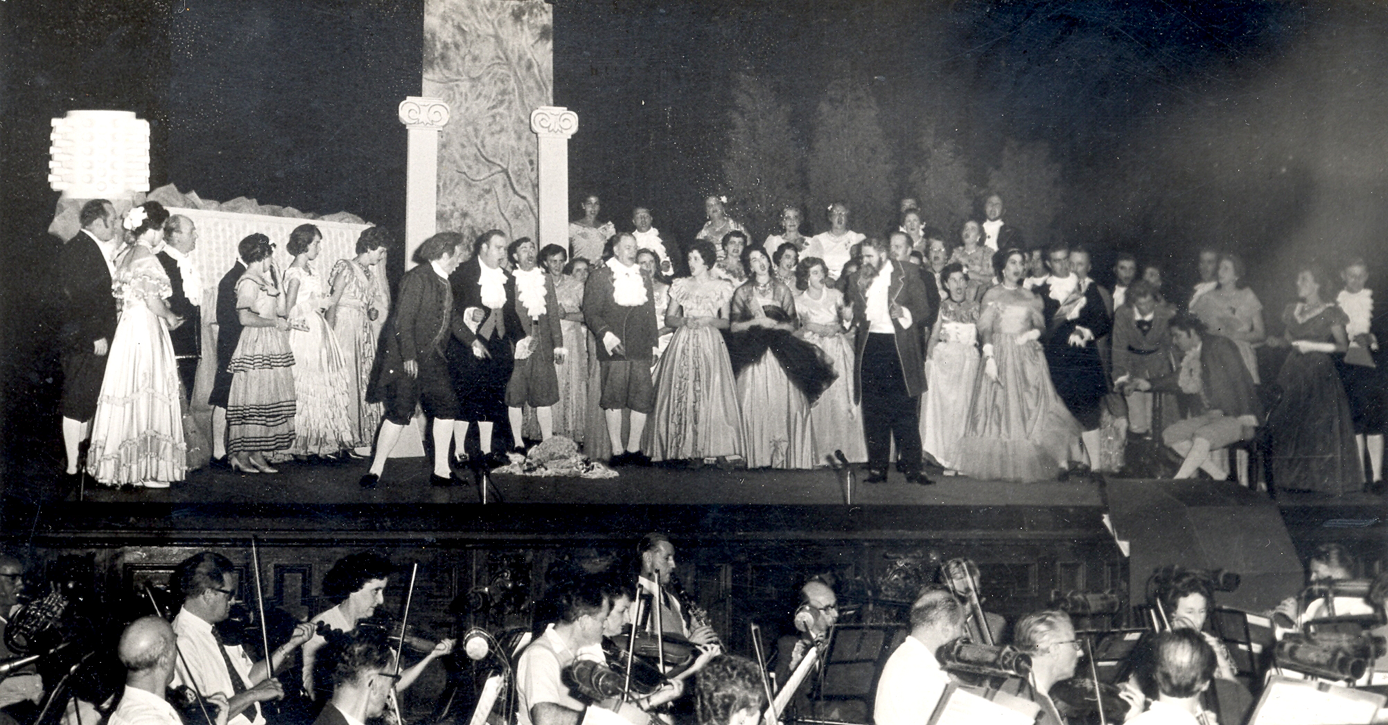 Students of Xenia Belmas in the cast of the performance of The Tales of Hoffman in Durban 1964